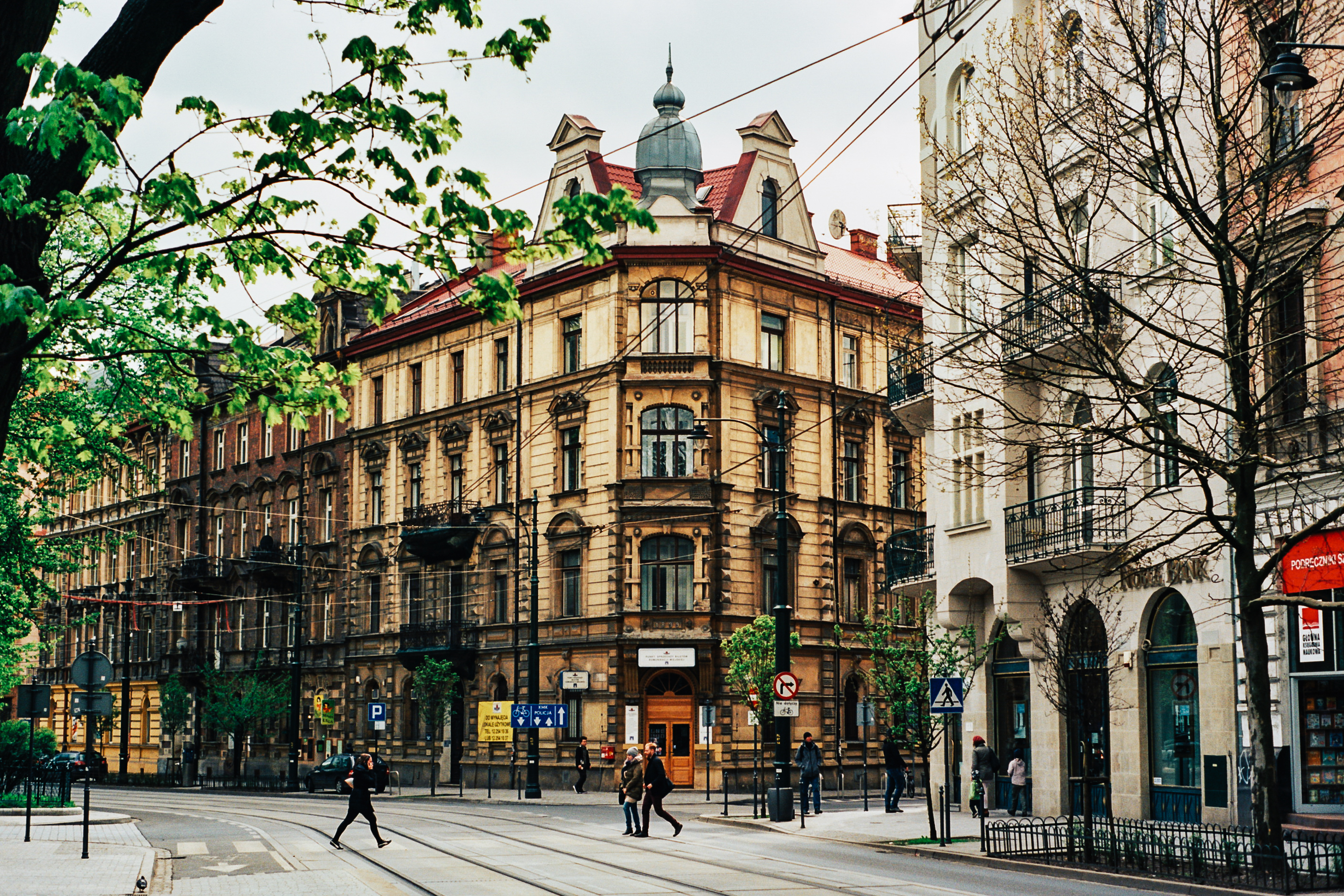 Krakow, Poland